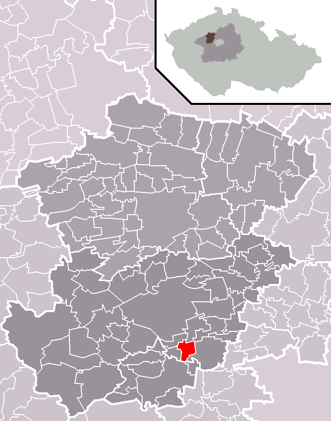 Location of Dolany municipality within Kladno District and administrative area of Kladno as a Municipality with Extended Competence.